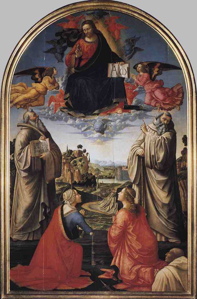 Christ in Heaven with Four Saints and a Donor Tempera on wood, 308 x 199 cm Pinacoteca Comunale, Volterra